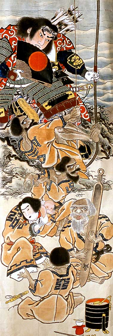 Ainu Paiinting (Mushanobori Sketching) by Hayasaka Bunrei